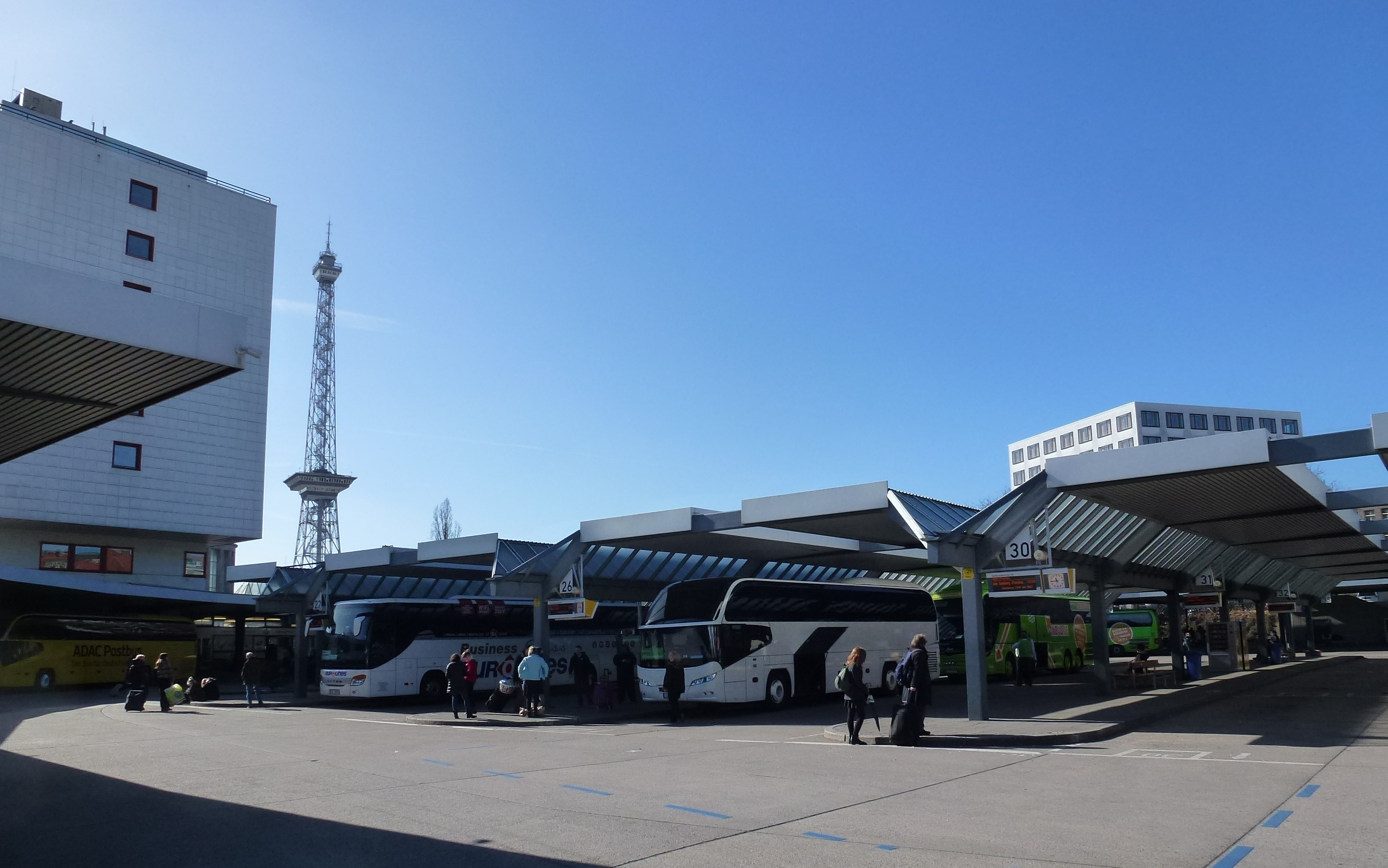 Berlin Westend Busbahnhof